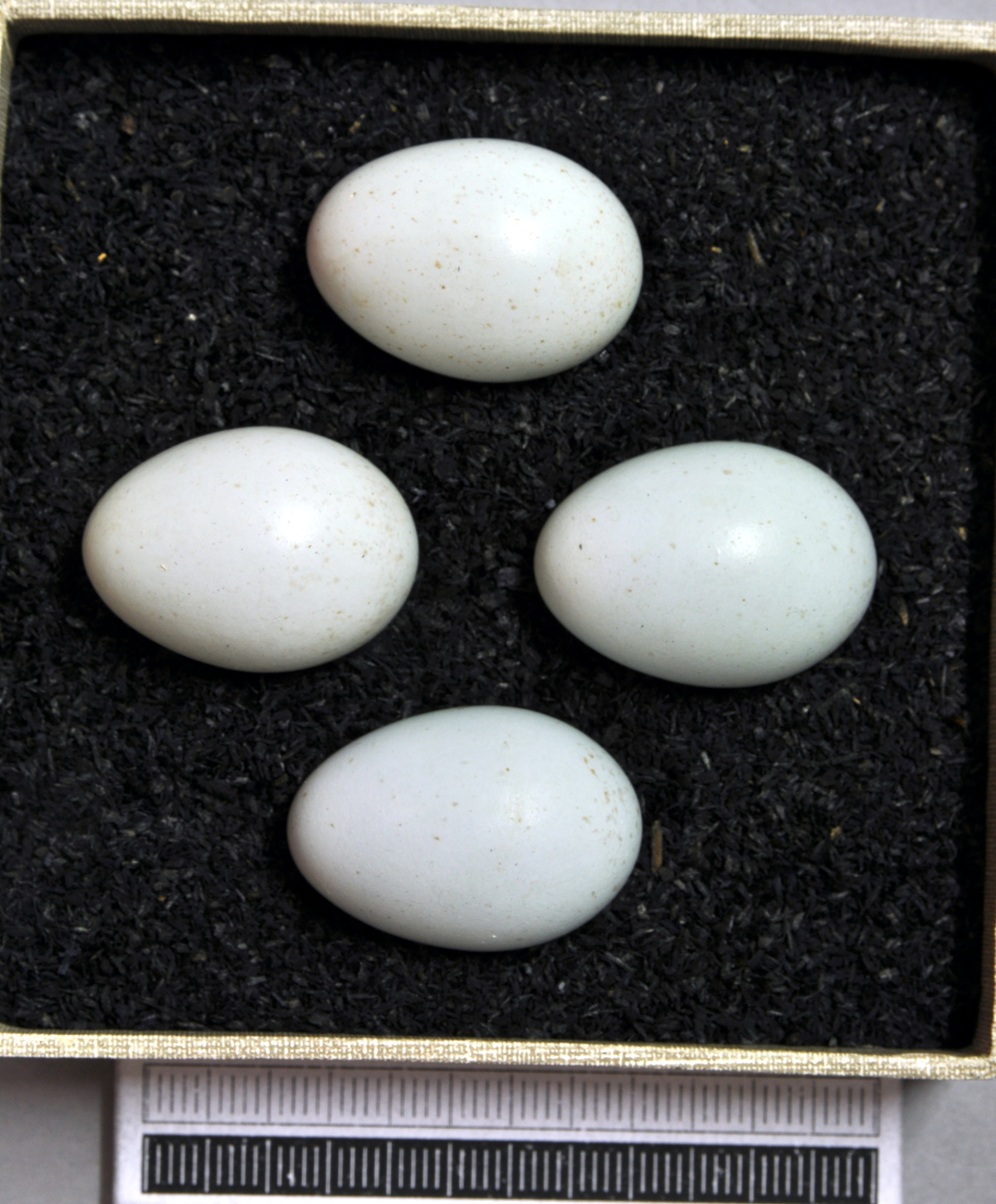 Blue rock thrush Monticola solitarius , egg, Coll. Museum Wiesbaden